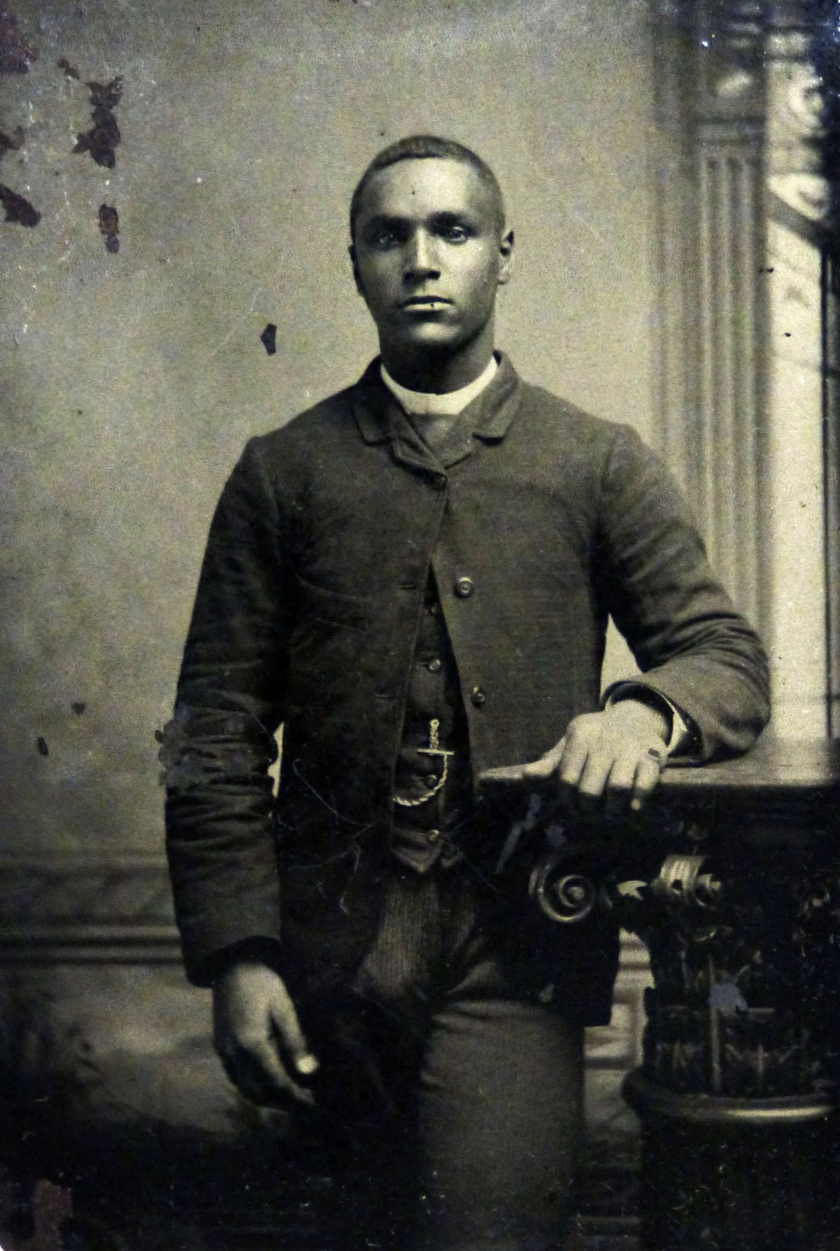 A Nineteenth Century studio photograph of an unidentified young man in Bermuda. Original print is in the possession of the Bermuda Archives. No information is recorded as to the identity of the subject or the photographer, or the date, though the date would be circa the 1870s or 1880s.